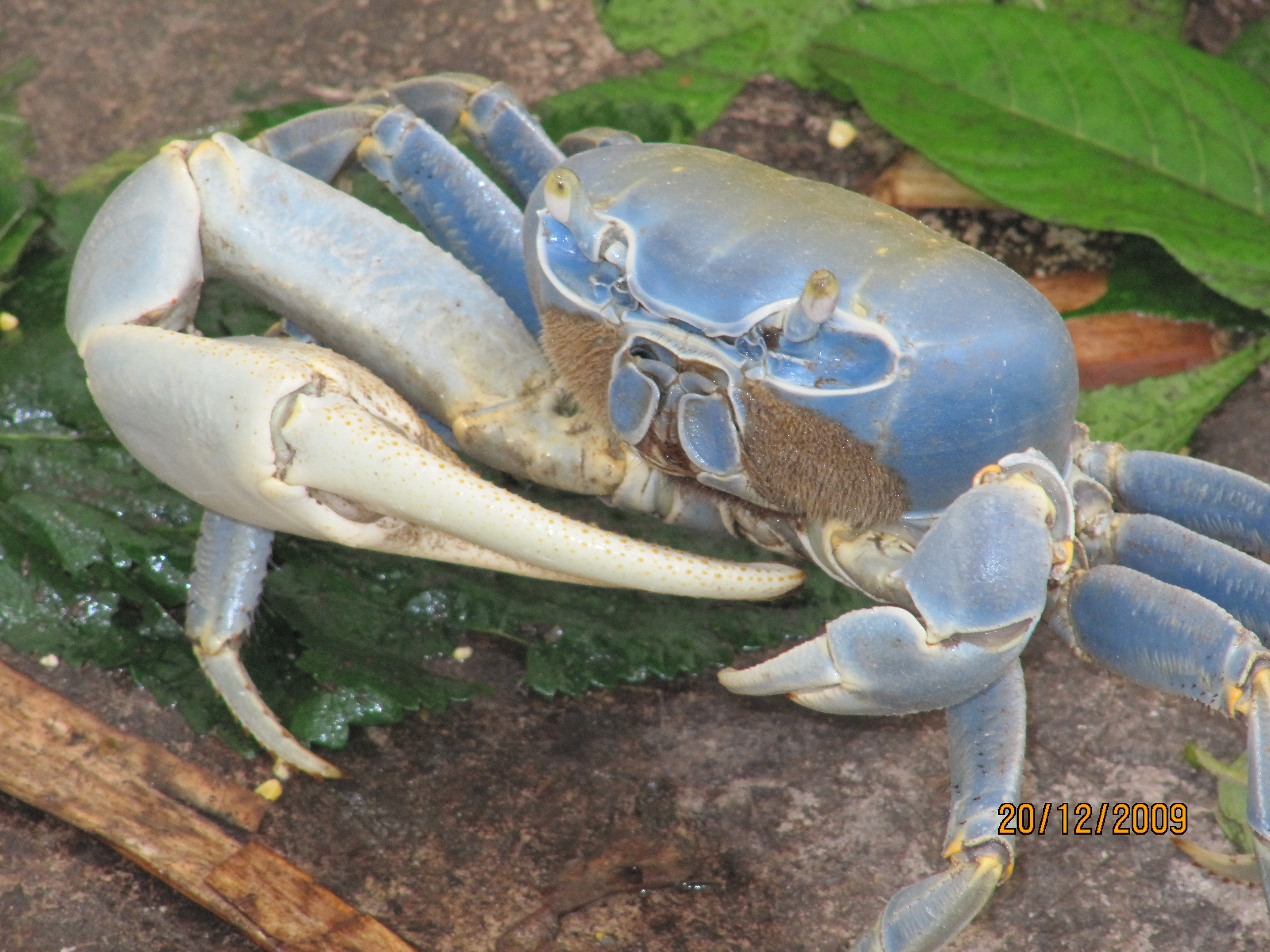 Guaiamu in Alcobaça, Bahia, Brazil.